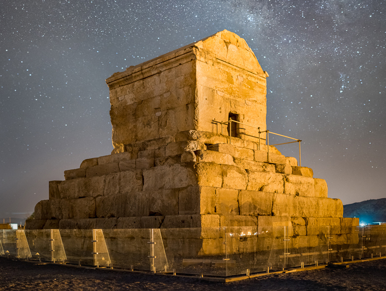 Tomb of Cyrus the great from Achaemenid Empire located in Pasargadae, a UNESCO World Heritage Site in Fars Province, Iran.